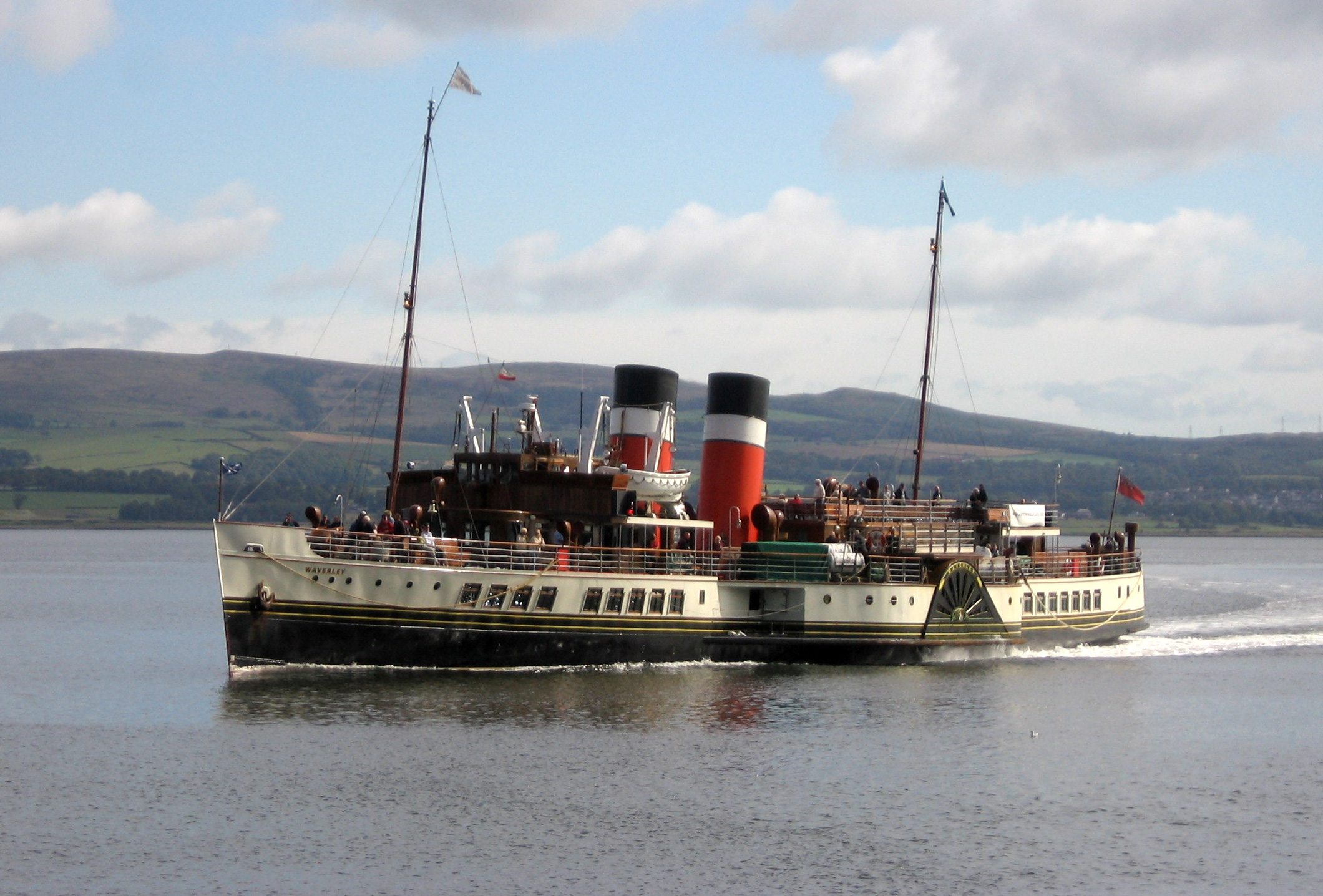 The PS Waverley setting out from Custom House Quay, Greenock for a day's cruise on the Firth of Clyde in Scotland.